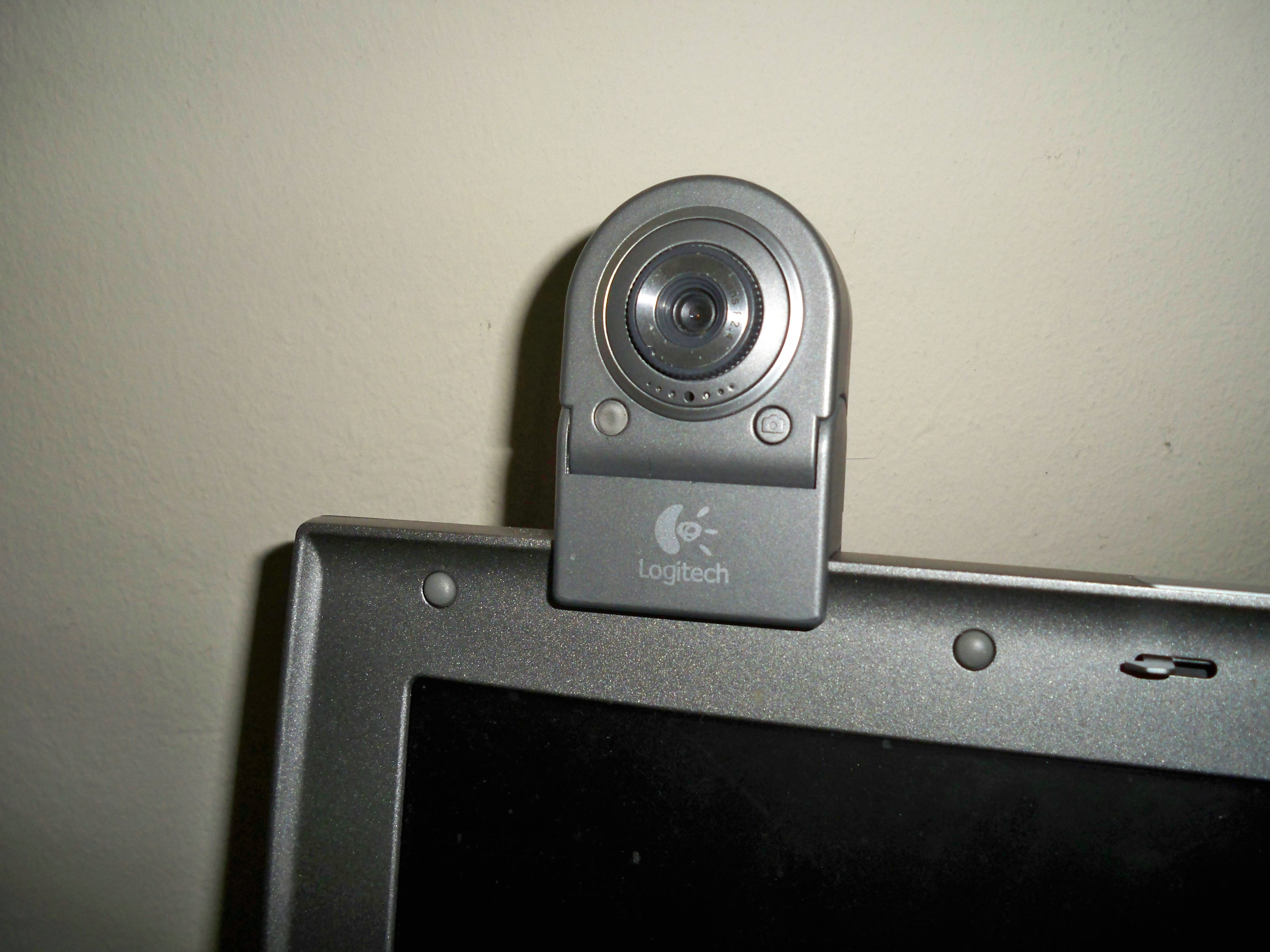 A Logitech QuickCam for Notebooks Deluxe webcam mounted on a notebook computer.